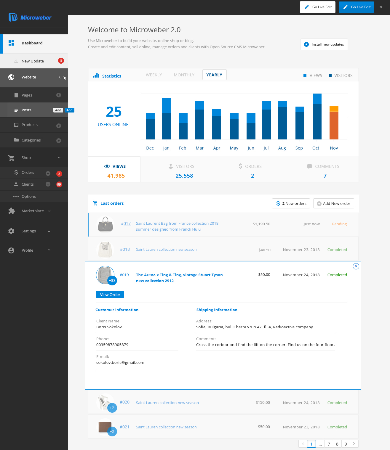 Admin dashboard screenshot